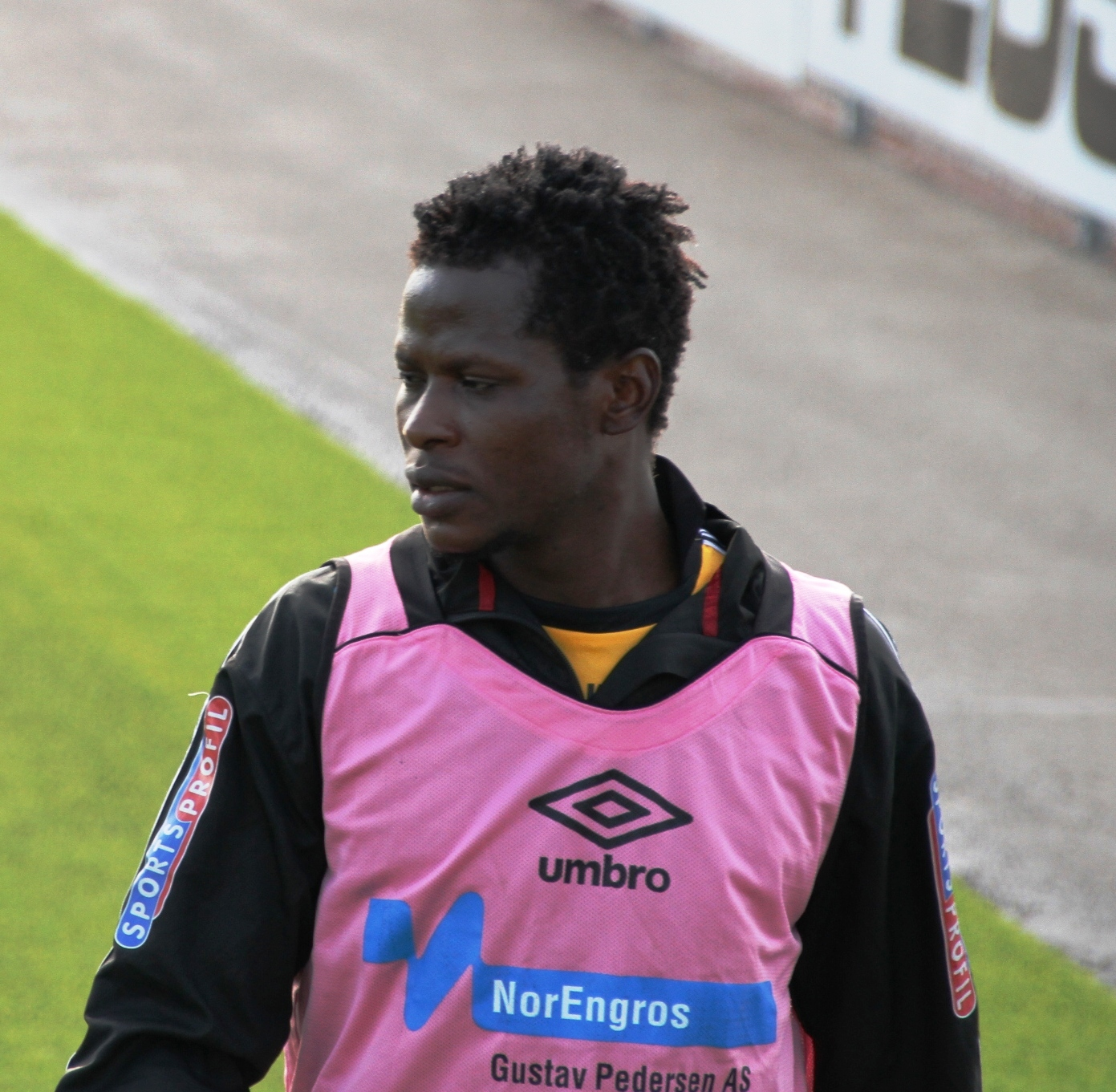 IK Start (Norway) player preparing for match against Mjøndalen IF. May 20, 2012.